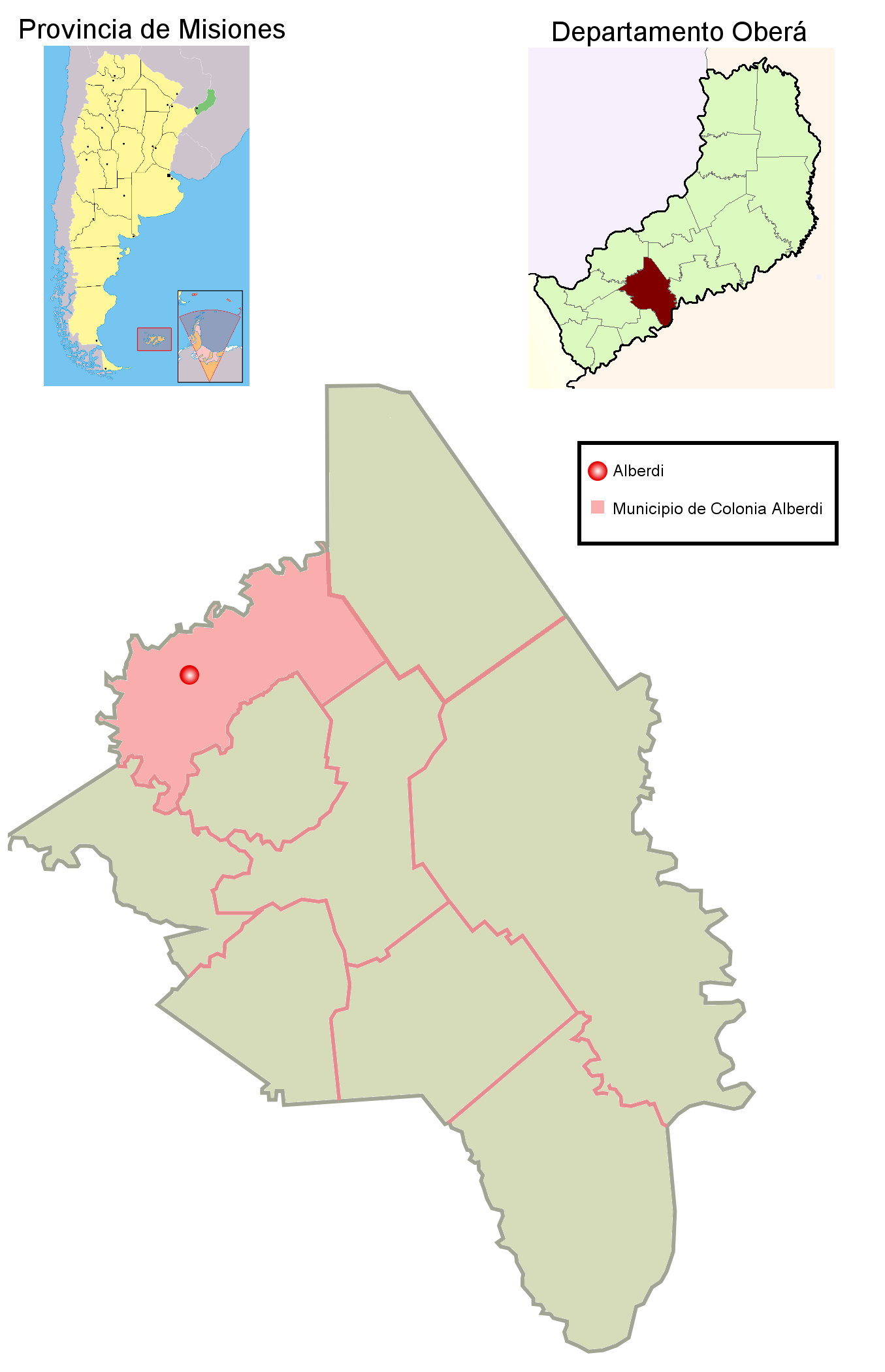 A map showing municipio of Colonia Alberdi in Oberá departament, Misiones province, Argentina. Also shows Alberdi town location. Created with GIMP.